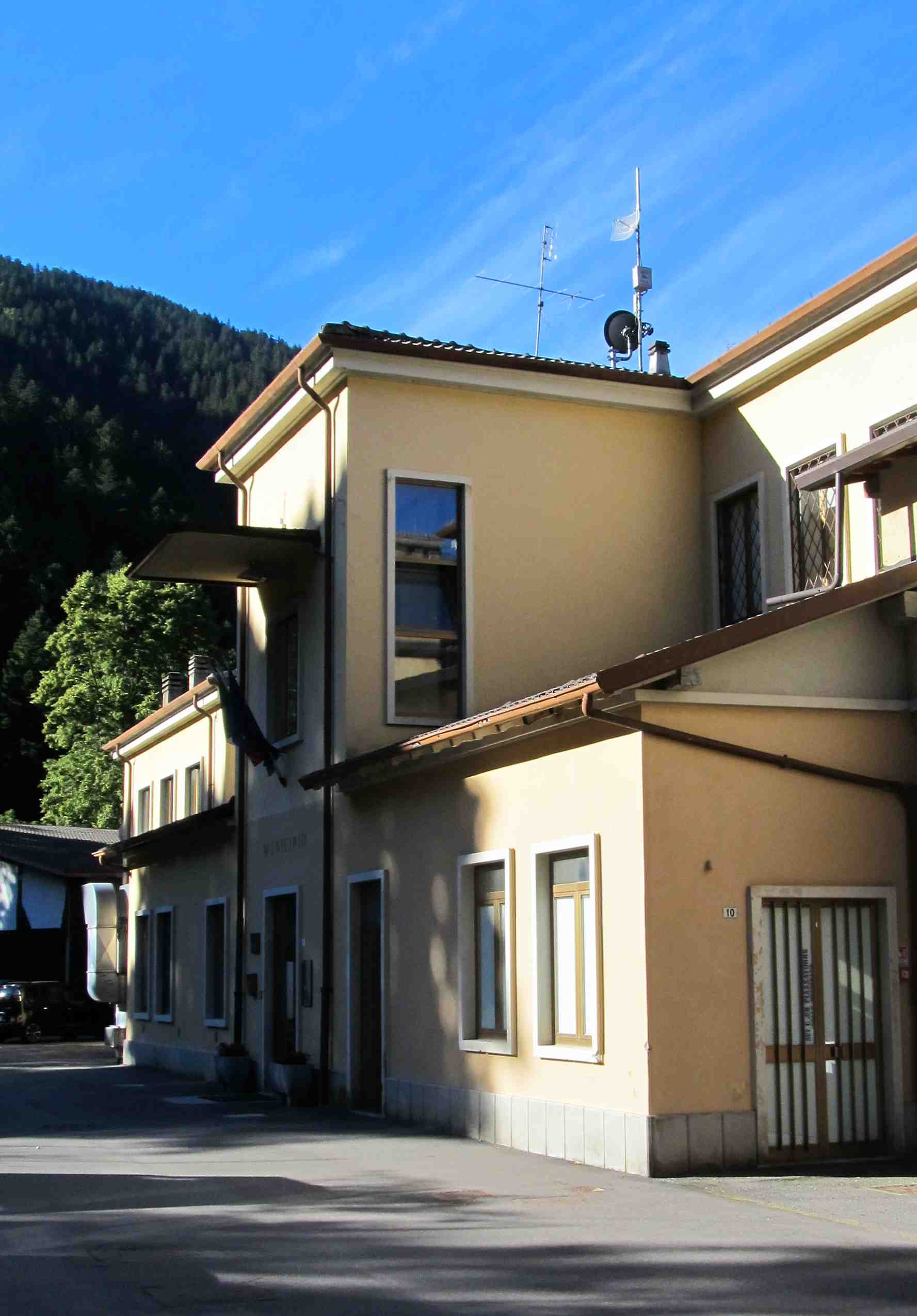 Piazzatorre (BG, Italy): town hall